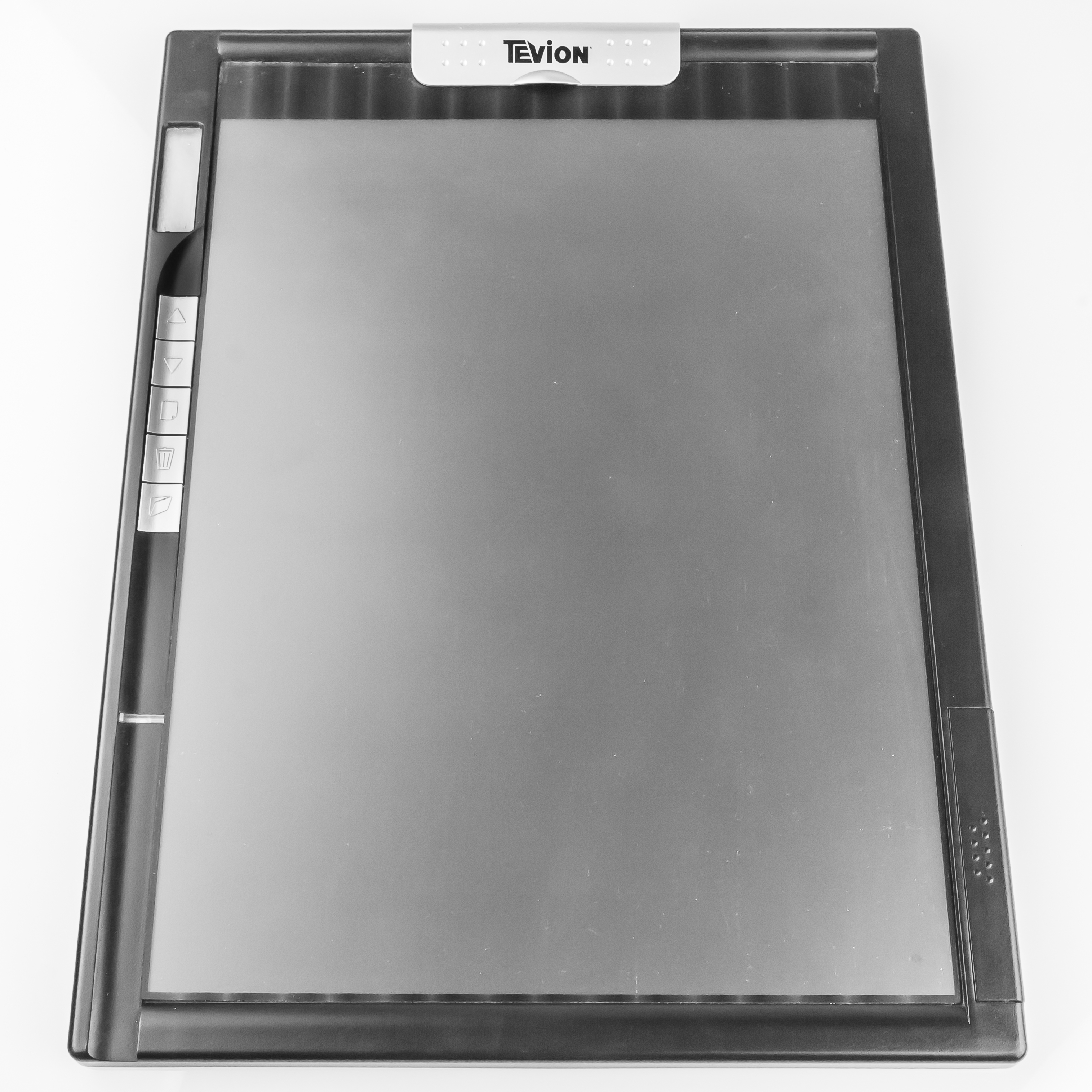 Tevion MD 85925 - Electronic clipboard